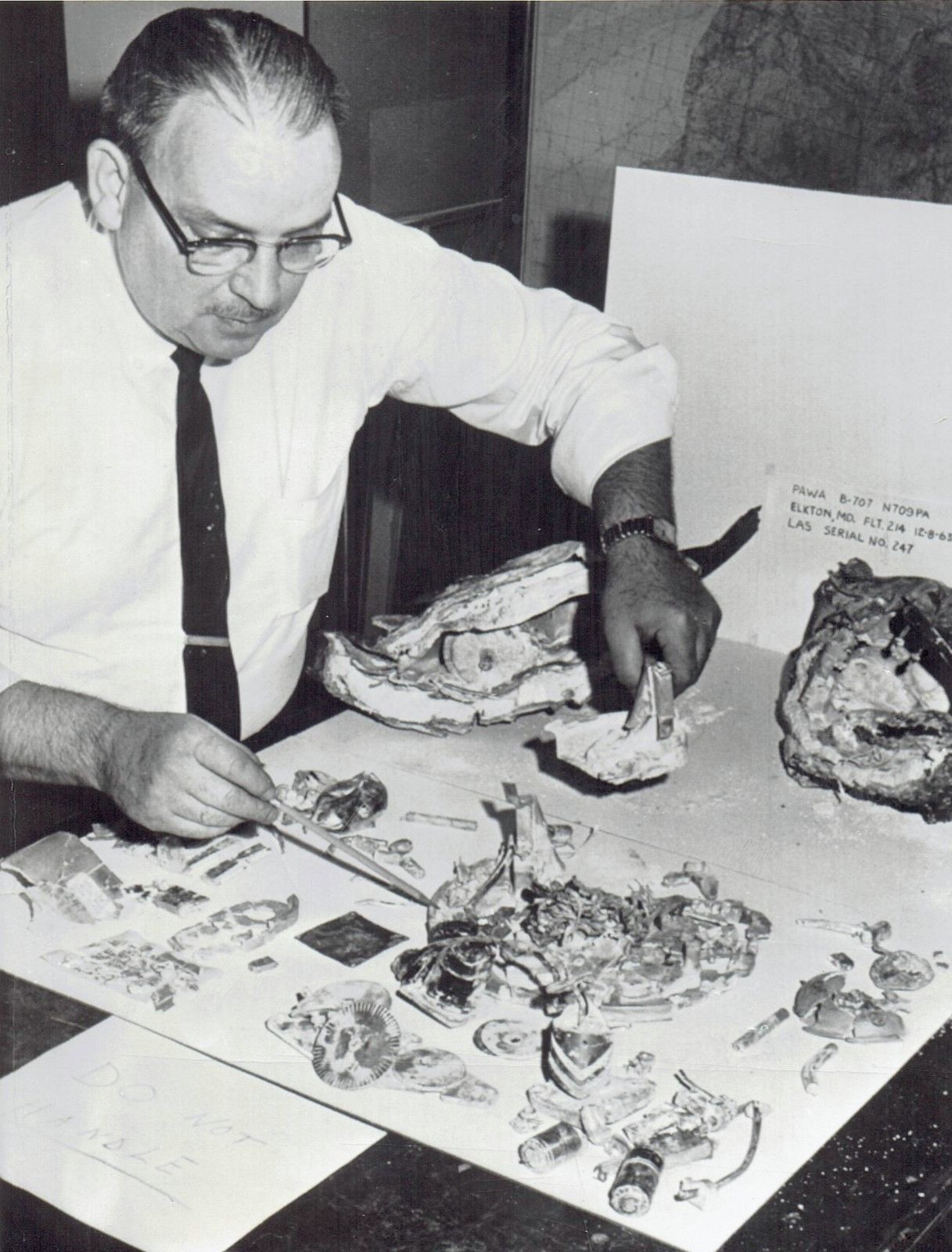 1963 Wire Photo worker looks at recorder Pan American Flight 214 Aircraft crash